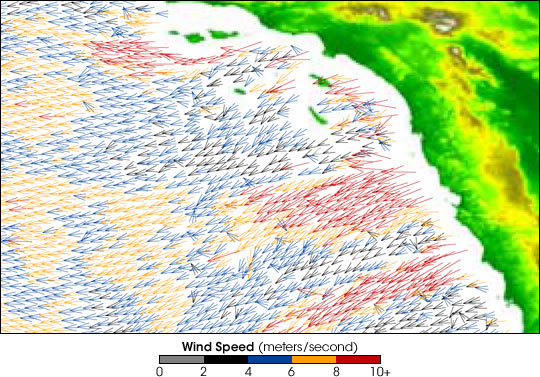 QuikSCAT image of the Santa Ana Winds, showing wind speed (m/sec). The image shows strong winds blowing offshore all along the Southern California coast. The fastest winds are indicated in red, with orange, blue, black, and gray representing progressively slower wind speeds.